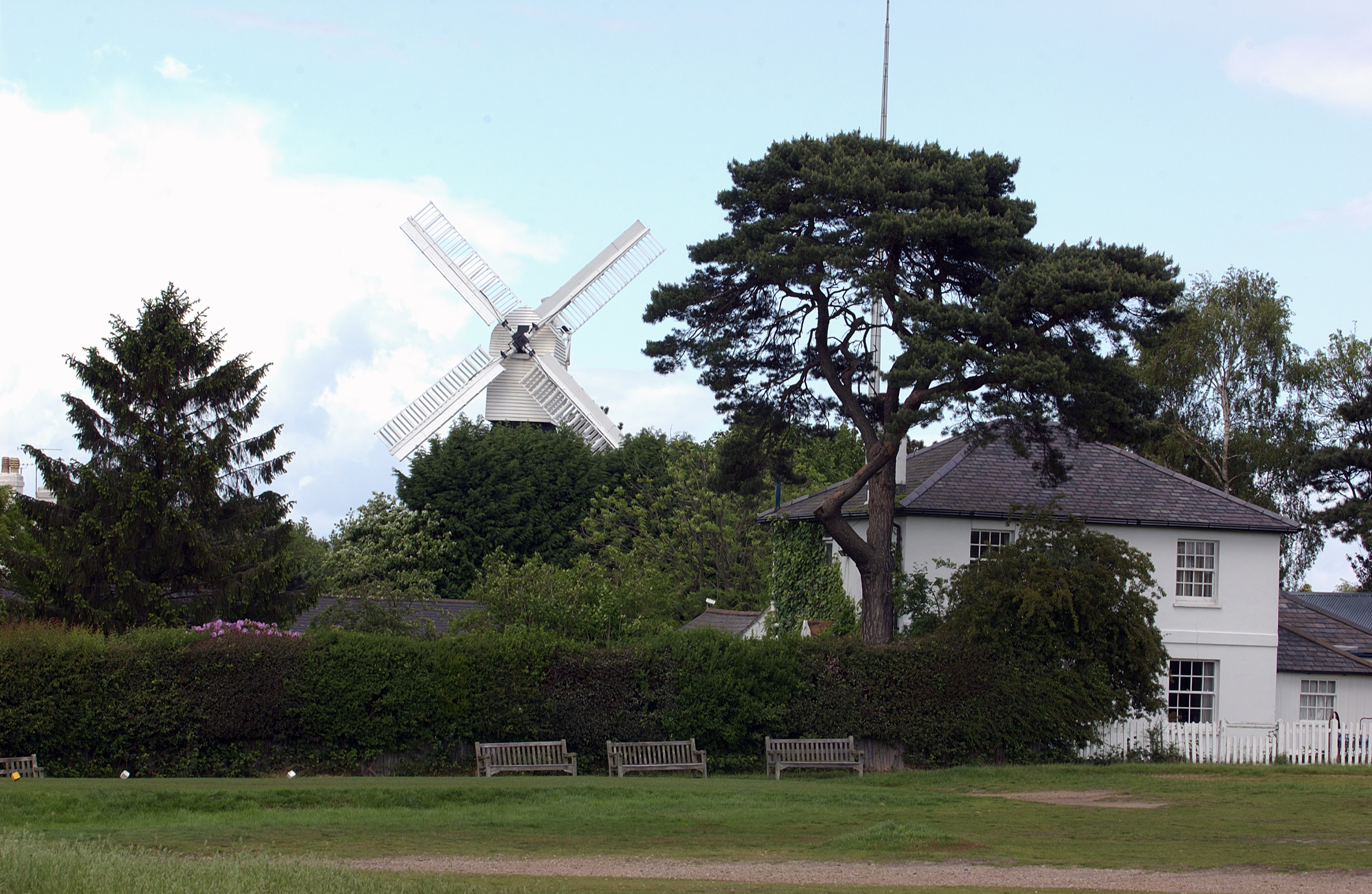 Wimbledon Common, Windmill